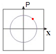 Position and momentum of a particle presented in the phase space.